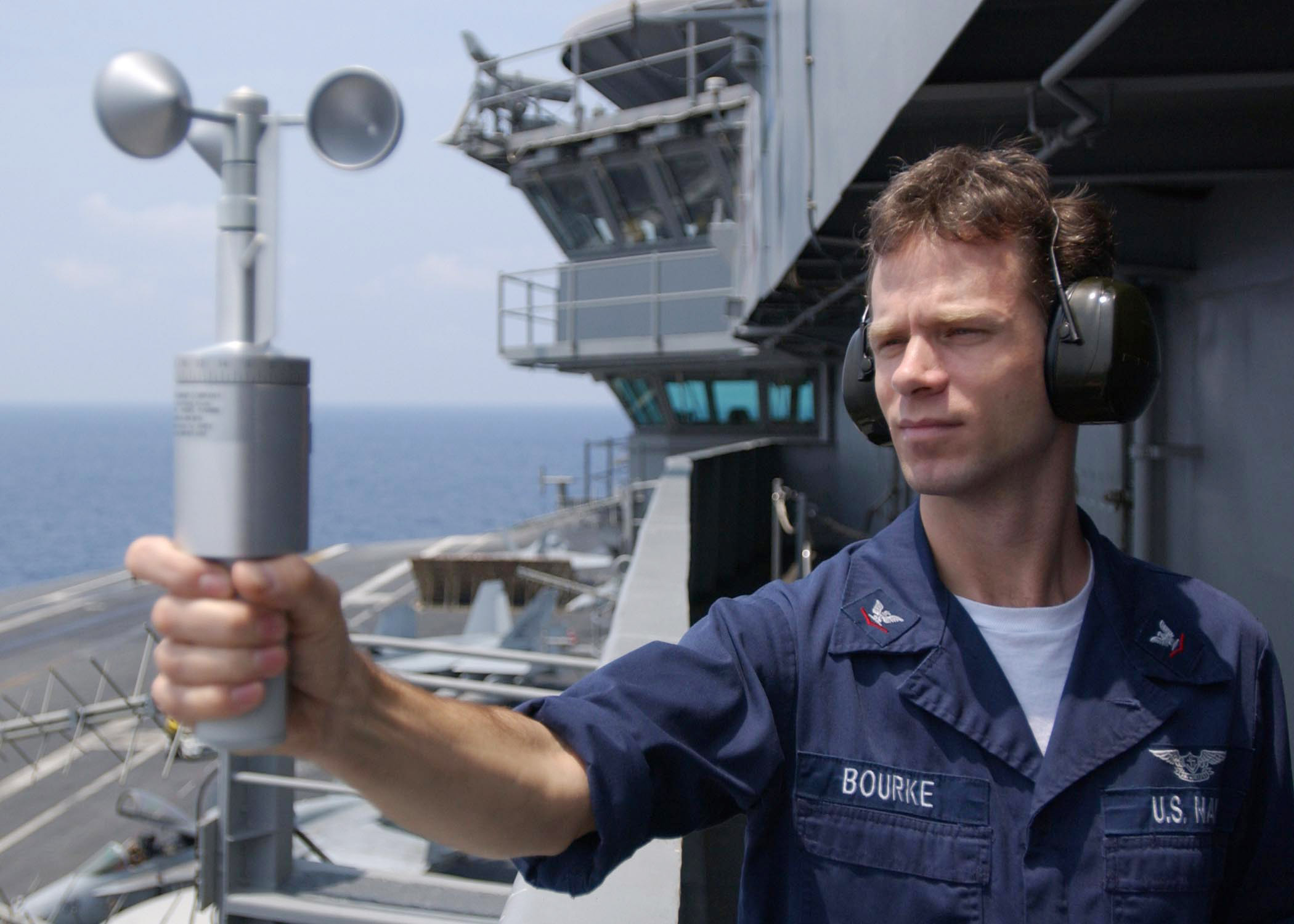 Atlantic Ocean (May 8, 2006) - Aerographer's Mate 3rd Class Arthur Bourke measures wind speed and direction with a handheld anemometer on the island aboard the Nimitz-class aircraft carrier USS Dwight D. Eisenhower (CVN 69). Eisenhower and embarked Carrier Air Wing Seven (CVW-7) are currently participating in Composite Training Unit Exercise (COMPTUEX). U.S. Navy photo by Photographer's Mate 3rd Class Nathaniel Moger (RELEASED)